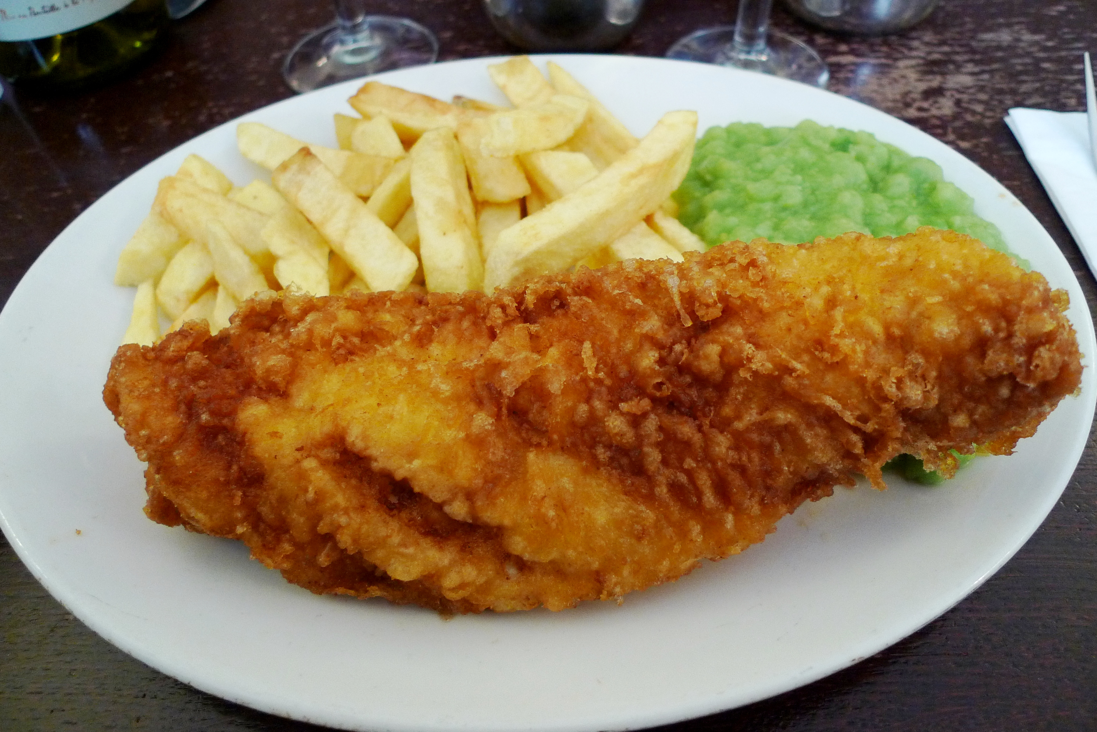 The fish and chips with mushy peas. At The Golden Hind, Marylebone Lane.